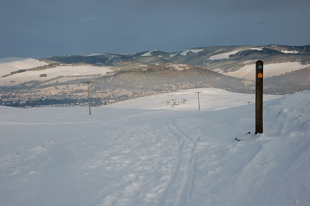 On the John Buchan Way, Cademuir Soft and deep snow especially on the E slope up to this point; even the skis were sinking well in, and walkers passing this way had followed a narrow trench of trodden snow. A view northeast to Peebles and the Glentress Forest hills.